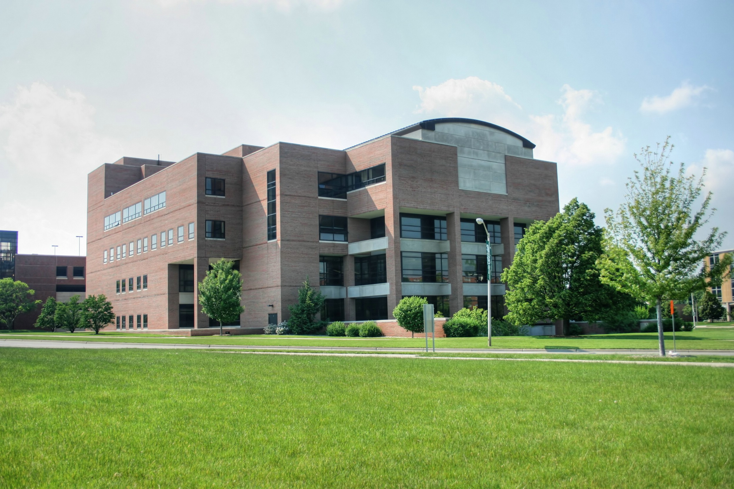 A photograph of the Law School Building located on the Michigan State University campus in East Lansing, Michigan. This photograph is one of a series taken for Wikipedia by the submitter on May 28th, 2006 between the hours of 3pm and 6pm.